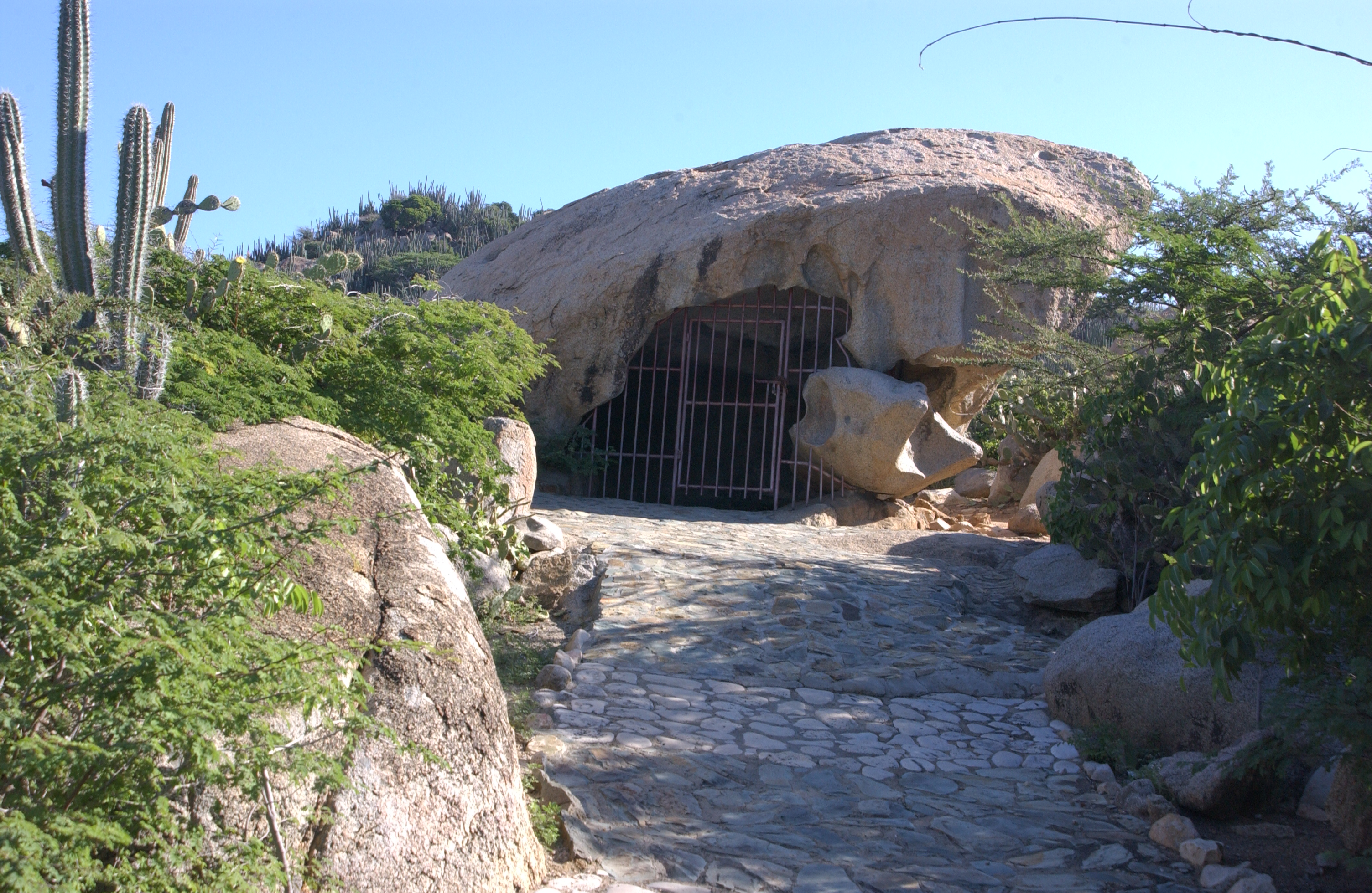 AYO PARK WHICH HAS SOME ARAWAK INDIAN PAINTINGS AMIDST A JUMBLE OF ROCK FORMATIONS